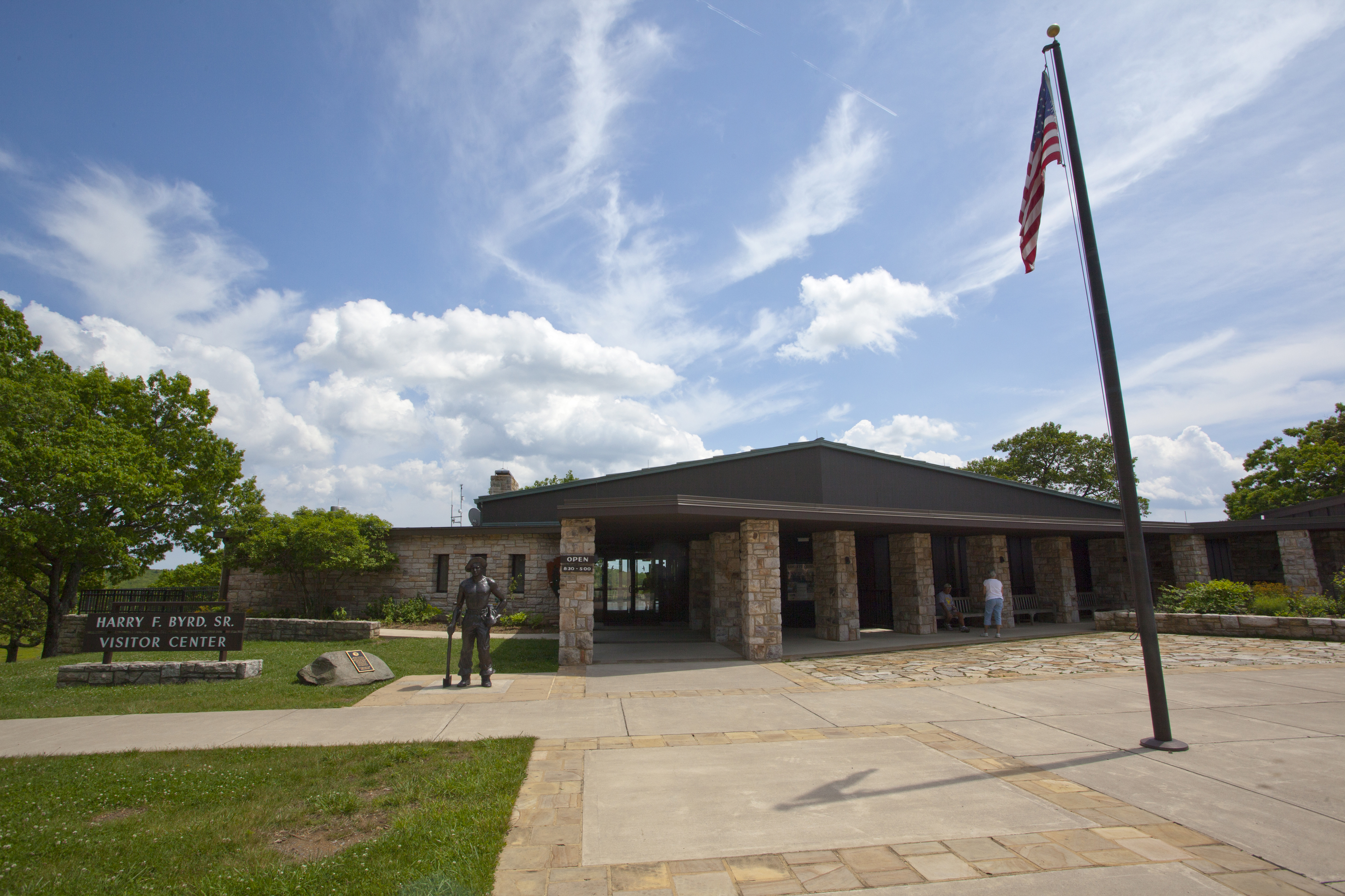 Byrd Visitor Center